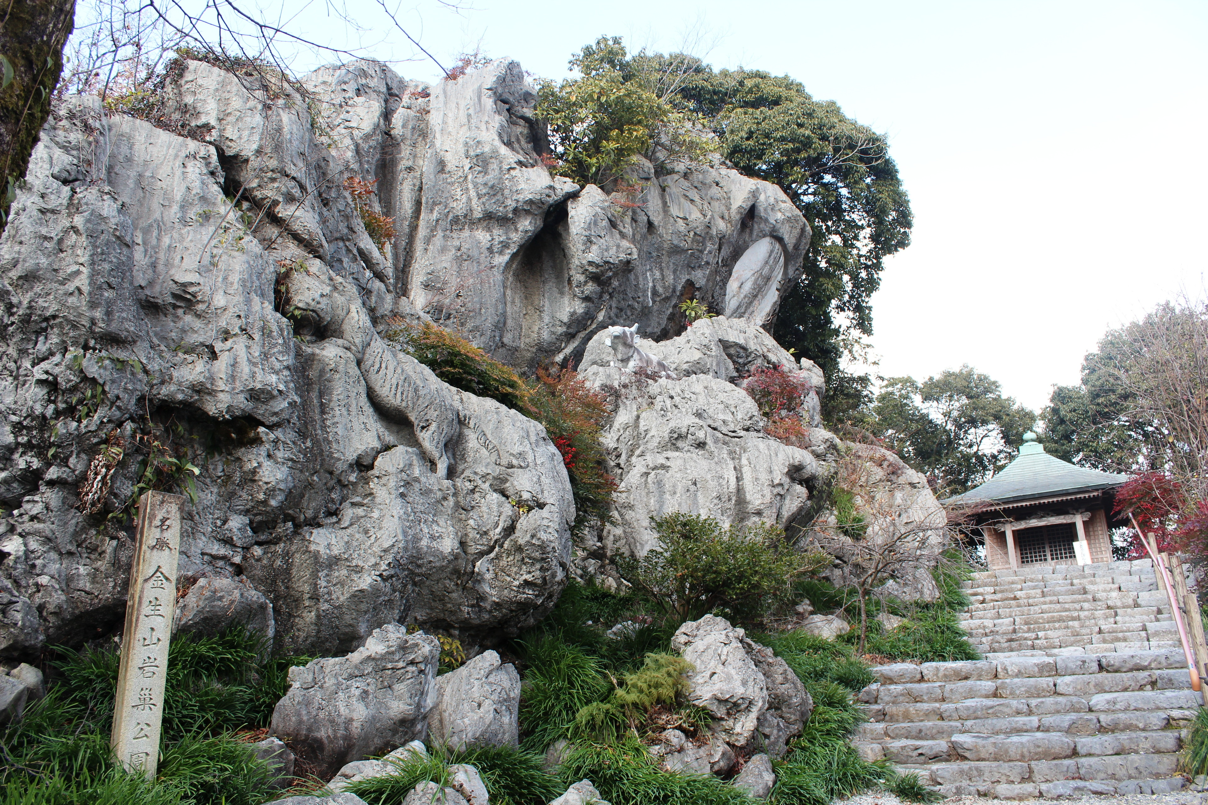 Iwasu Park in Myojorinji (Mount Kinsho), in Ogaki, Gifu, Japan.